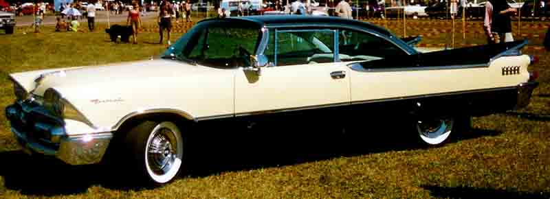 Dodge Coronet